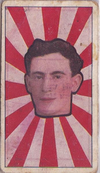 Cigarette card of Joe Prince from the 1911 Sniders & Abrahams series.